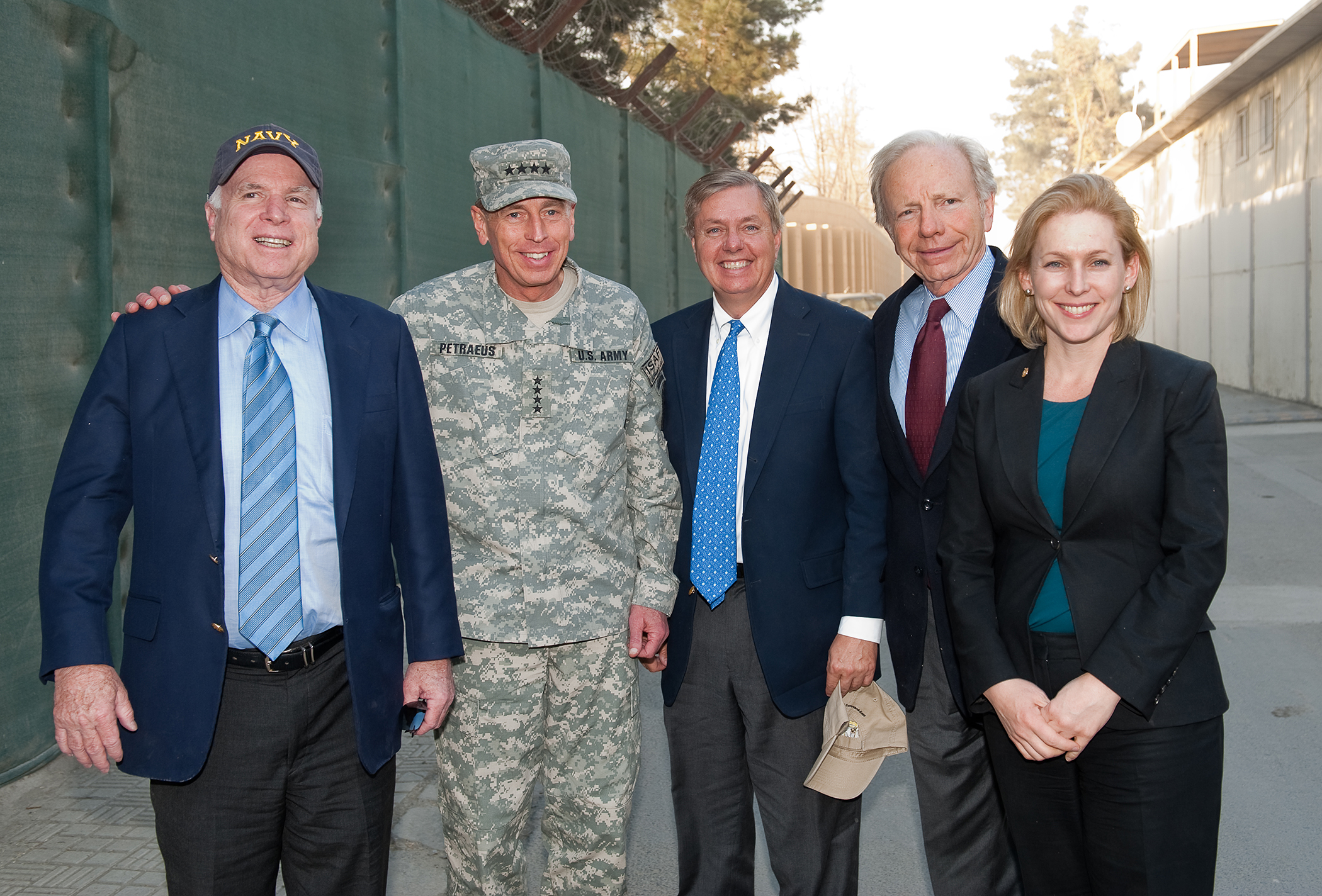 Sens. John McCain (R-Ariz.), Joe Lieberman (I-Conn.), Lindsey Graham (R- S.C.) and Kirsten Gillibrand (D-N.Y.), visit International Security Assistance Force Headquarters in Afghanistan during a congressional delegation tour, Nov. 10. The senators also received a brief from Gen. David H. Petraeus, commander of NATO and ISAF in Afghanistan. ISAF is a key component of the international community’s engagement in Afghanistan, assisting Afghan authorities in providing security and stability while creating the conditions for reconstruction development.